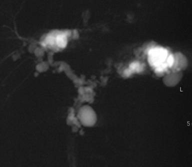 Magnetic resonance cholangiopancreatography (MRCP) of the liver of a 27 year old woman with Caroli disease. Multiple cystic lesions in the left liver lobe. Saccular ectasia of the main biliary duct is also depicted.